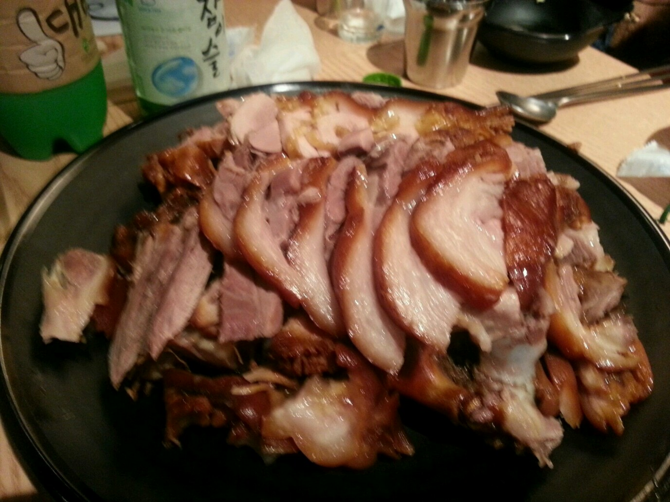 jokbal